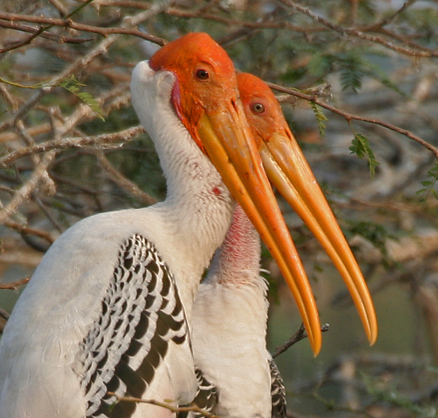 Painted Stork Mycteria leucocephala at Garapadu, Andhra Pradesh, India.